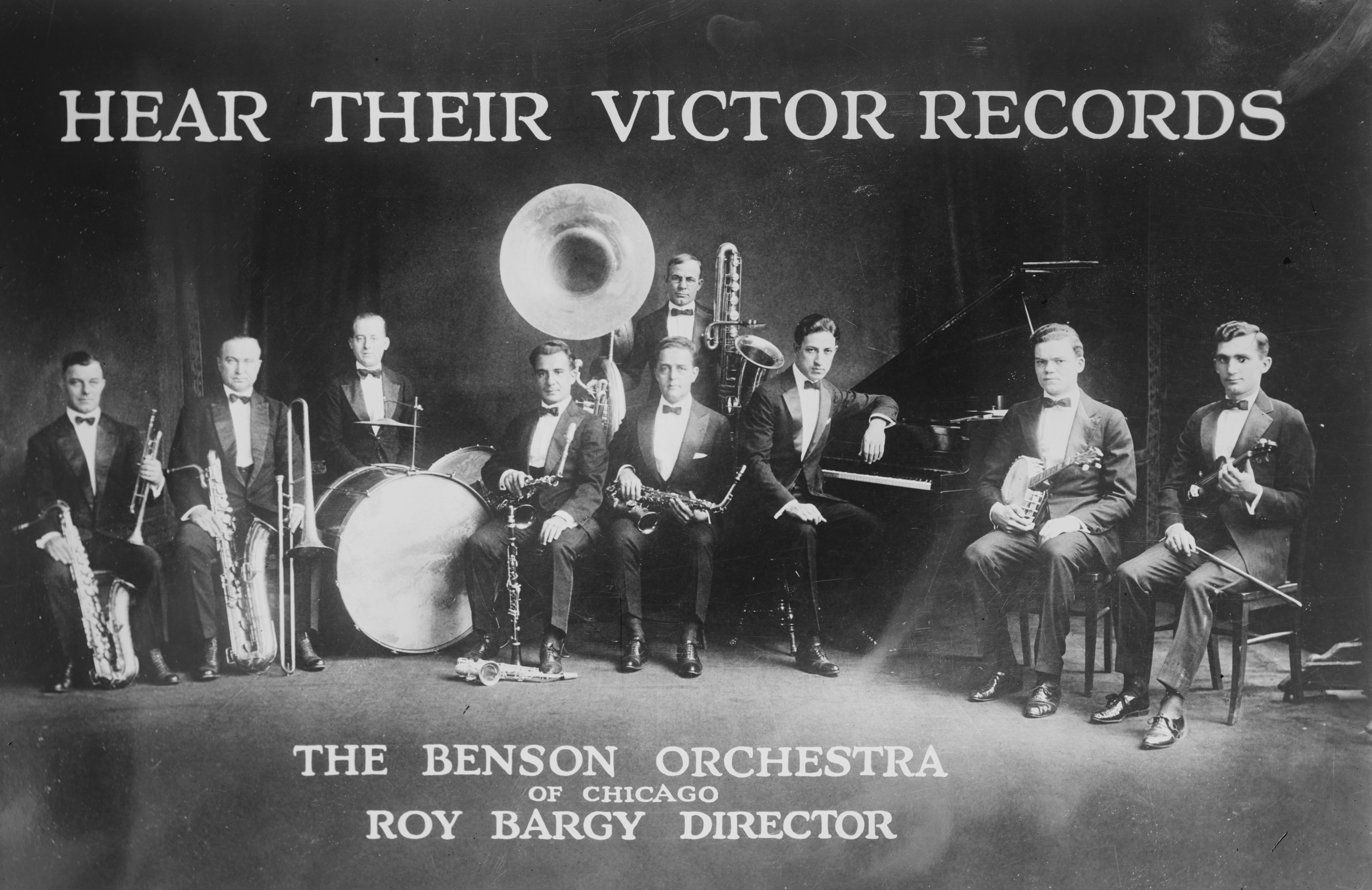 Photograph of the Benson Orchestra of Chicago, director Roy Bargy seated at the piano. Advertising text for Victor Talking Machine Company added.